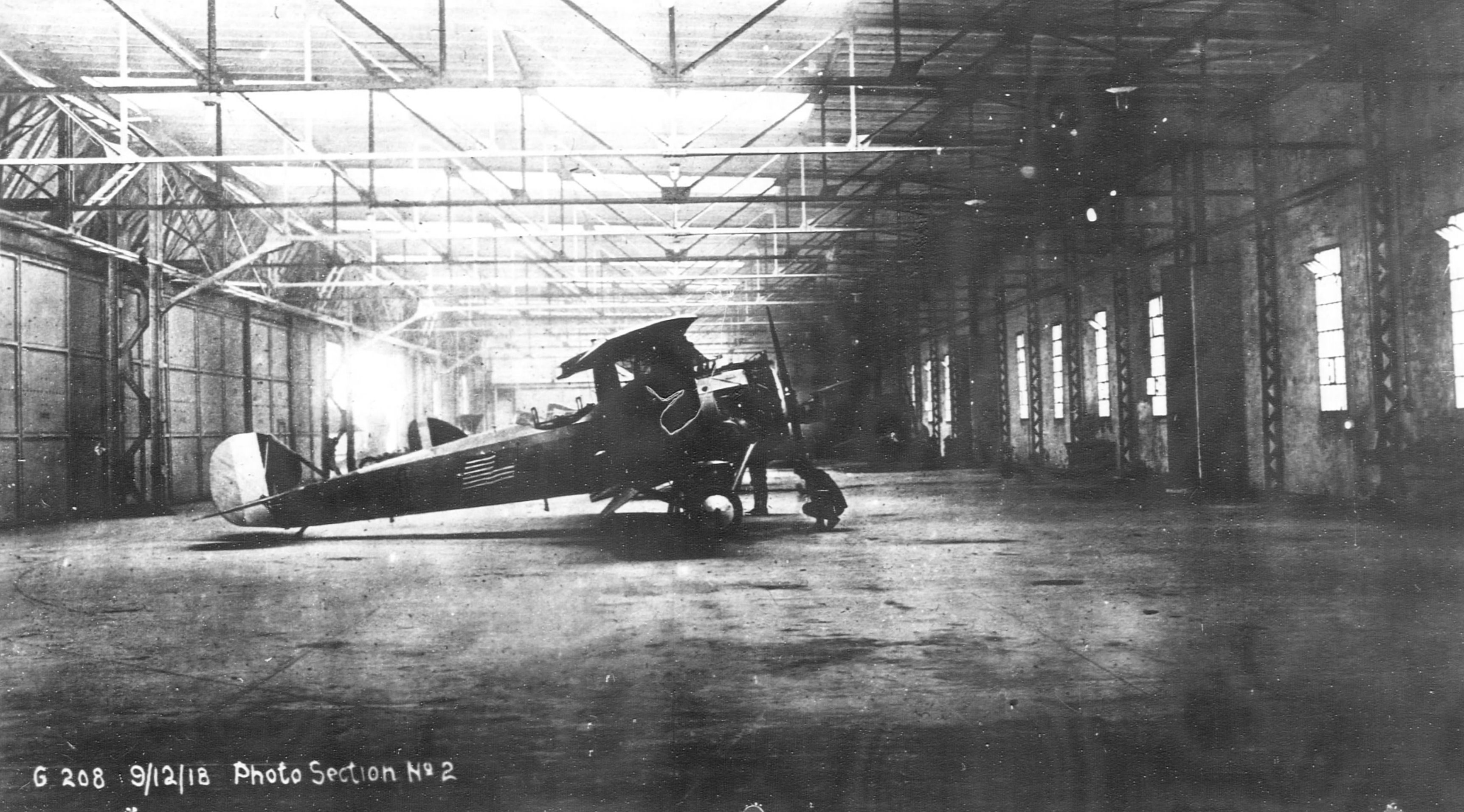 1st Aero Squadron Salmson 2A2 in a hangar at Julvecourt Aerodrome, France